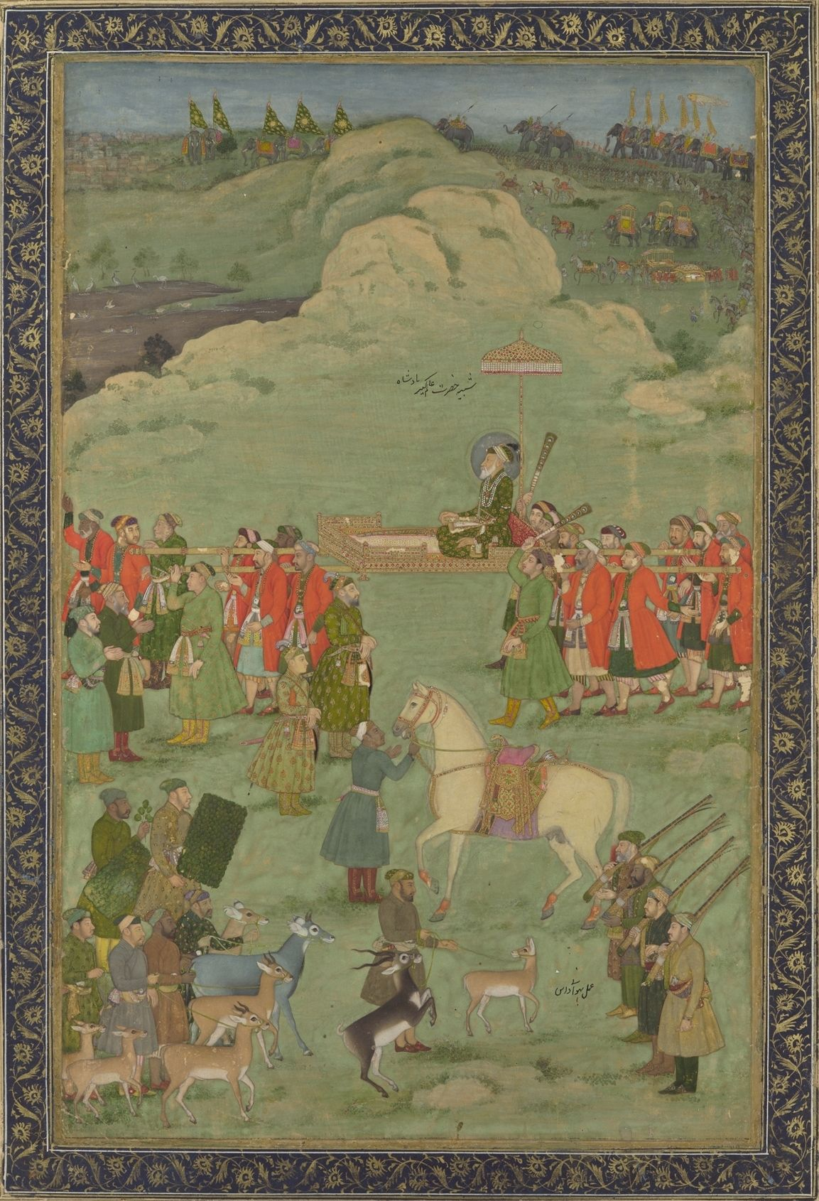 The Emperor Aurangzeb Carried on a Palanquin Painting by Bhavanidas (active ca. 1700–1748) Object Name: Illustrated single work Date: ca. 1705–20 Geography: India Medium: Opaque watercolor and gold on paper Dimensions: H. 22 7/8 in. (58.1 cm) W. 15 1/8 in. (38.4 cm) Classification: Codices Credit Line: Louis V. Bell Fund, 2003 Accession Number: 2003.430 This artwork is not on display Share Add to MyMet Description The emperor Aurangzeb (r. 1656–1707) and his royal hunting party are shown here in one of the final grand imperial images of the Mughal era. Preparations for the chase are in progress, as evident from the row of hunters in the foreground and others who lead deer as bait or carry leafy screens for camouflage. Bhavanidas, painter of this scene, worked first at the Mughal court and then later moved to the Rajput court of Kishangarh, where he became its preeminent artist.